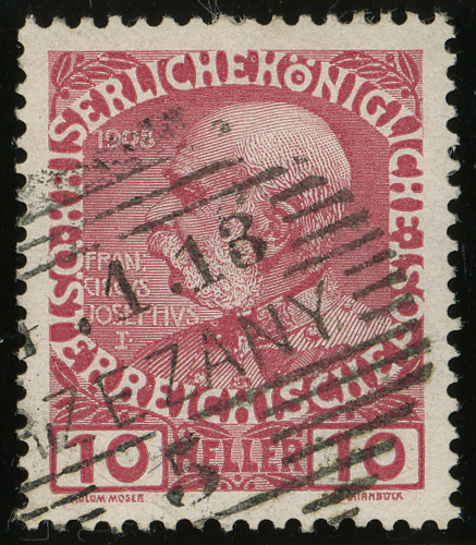 Austria KK 10 heller stamp, Jubilee issue 1908, cancelled BRZEZANY (Galicia, Ukraine) in 1913.